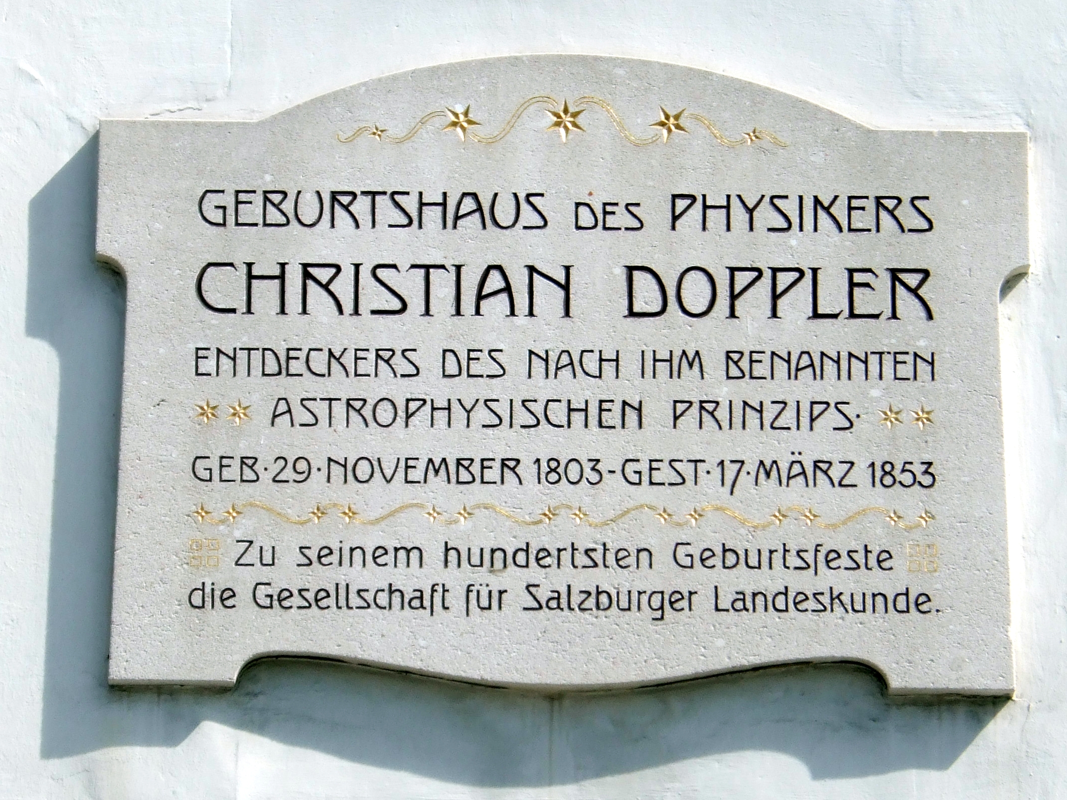 Memorial plaque on Christian Doppler's (1803–1853) birthplace (Makartplatz 1, Salzburg)